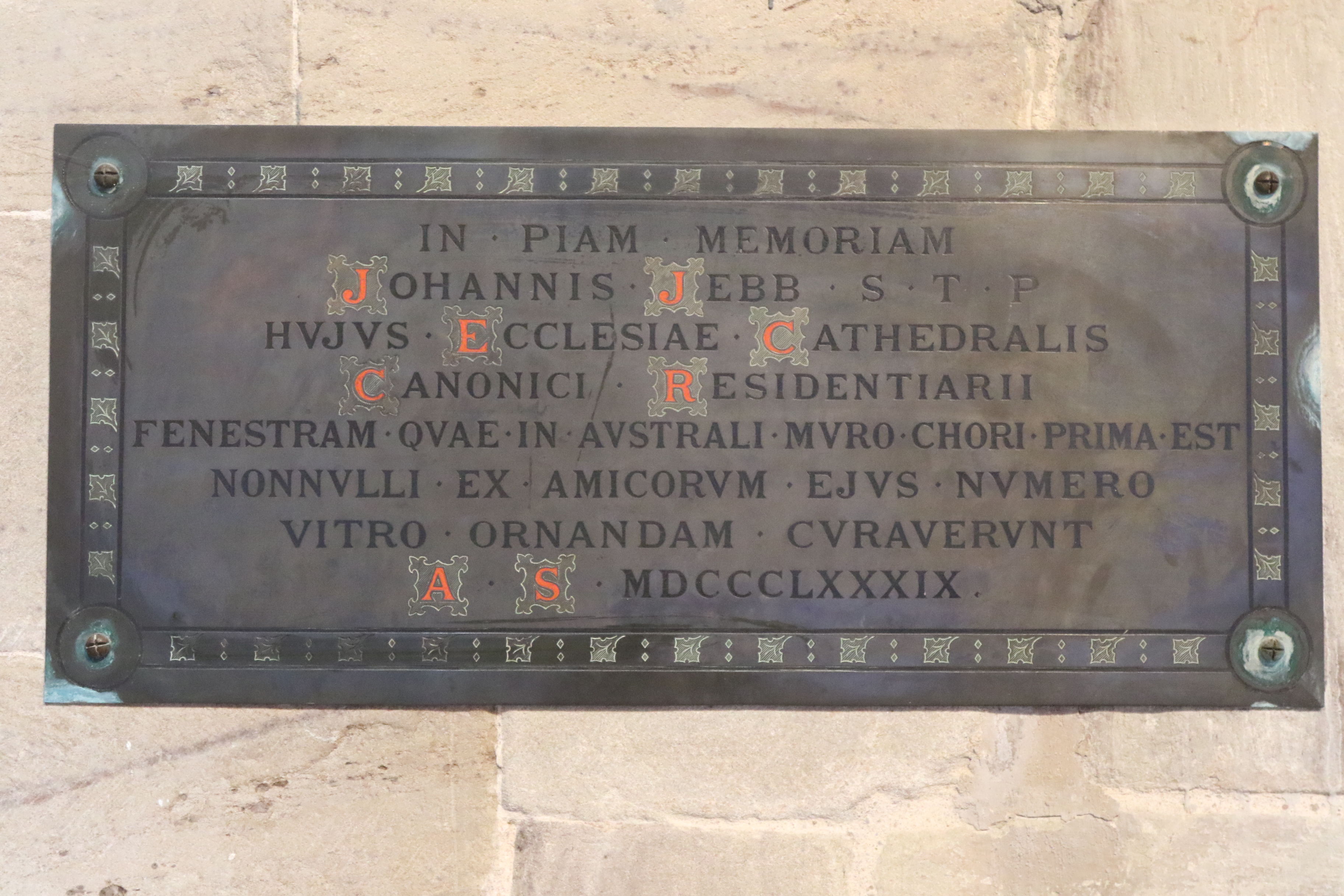 Johannis Jebb S.T.P.